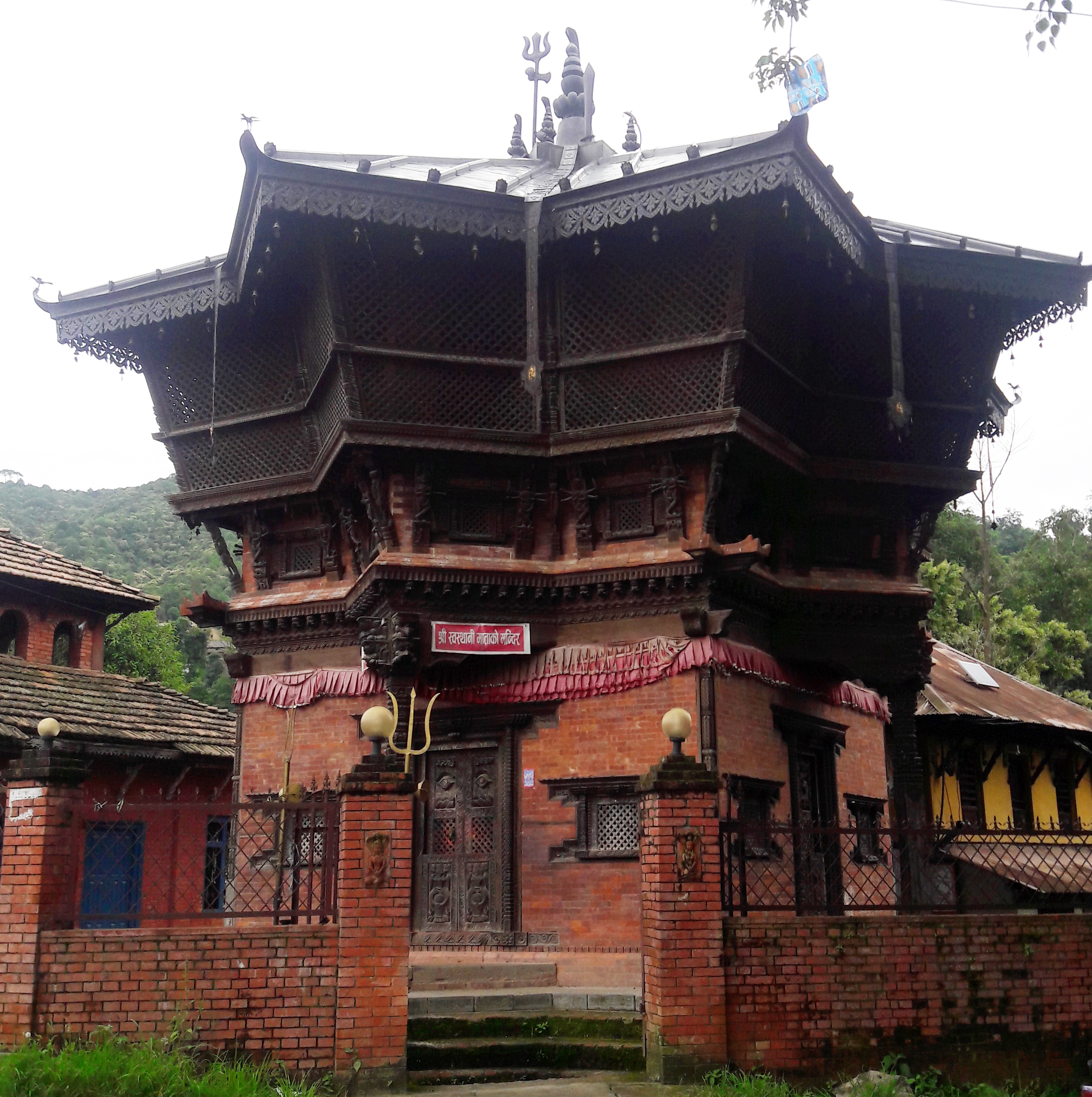 Swasthani Temple, Saankhu